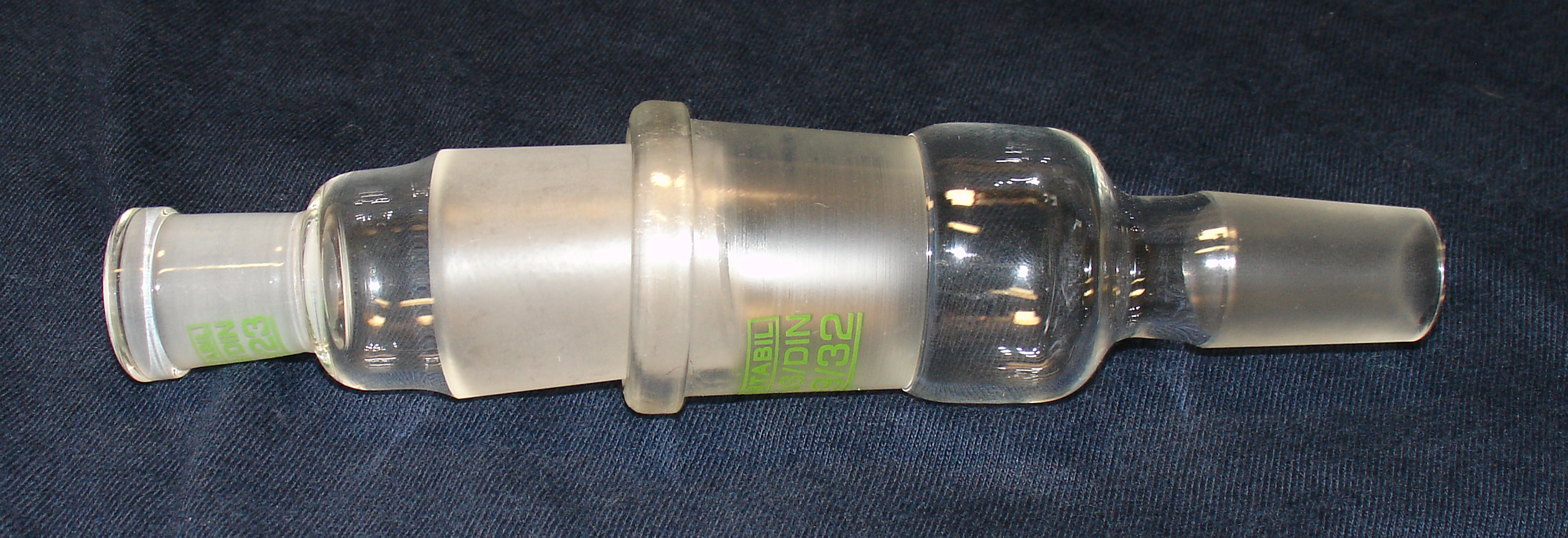 Ground glass joints reductors